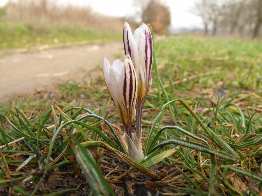 Crocus biflorus photographed near Grosseto, Tuscany, Italy.